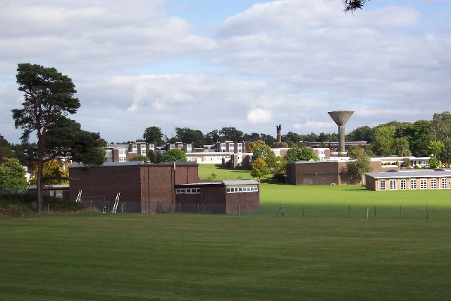 Deepcut Army Camp. Deepcut Camp is the headquarters of the Royal Logistic Corps, which was formed in 1993 from the Royal Corps of Transport, the Royal Army Ordnance Corps, the Royal Pioneer Corps, the Army Catering Corps and the Postal and Courier Section of The Royal Engineers. The Corps provides the rest of the British Army with essential support, including vehicles, spares, equipment, weapons, ammunition, fuel, food and water.